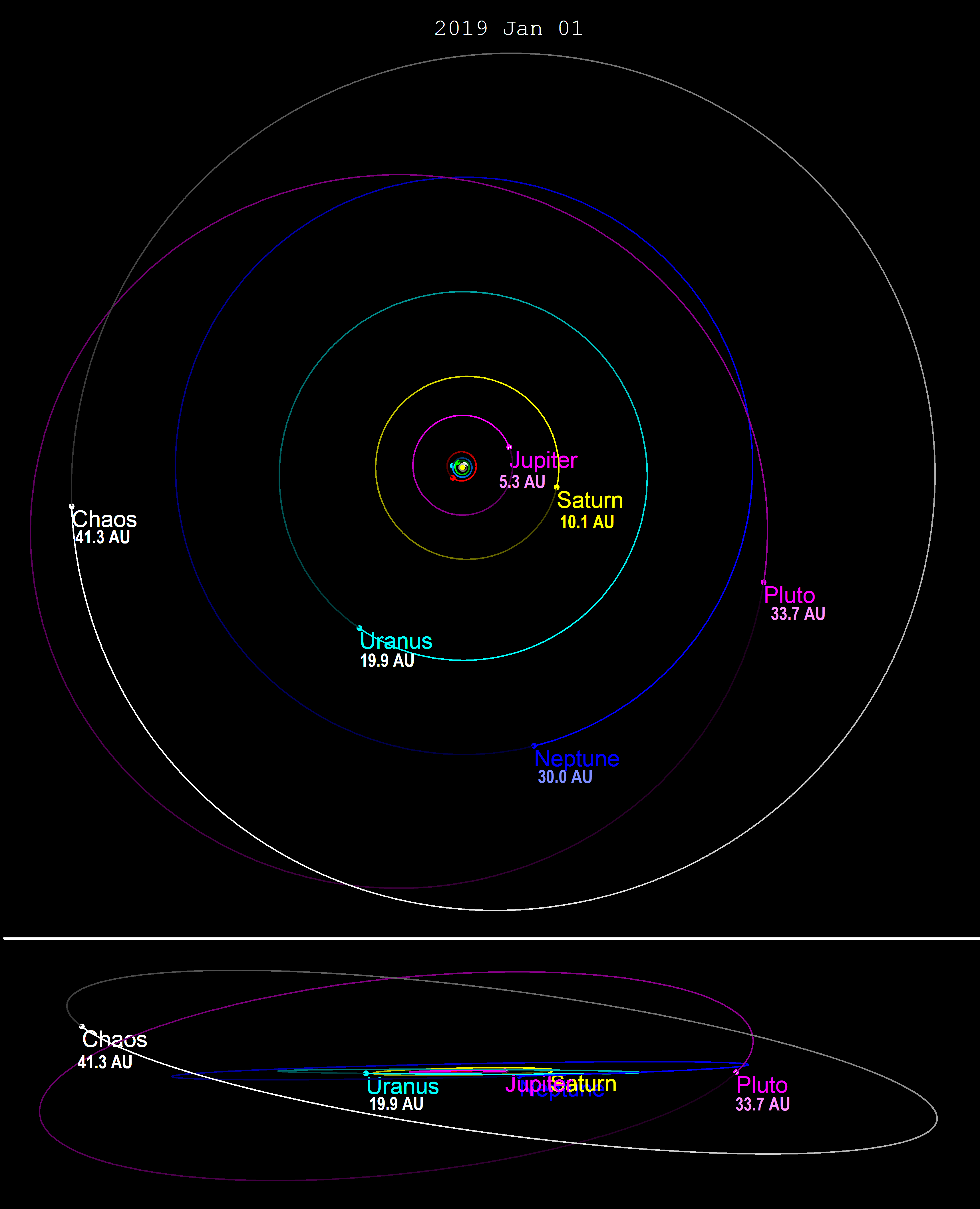 en:19521_Chaos